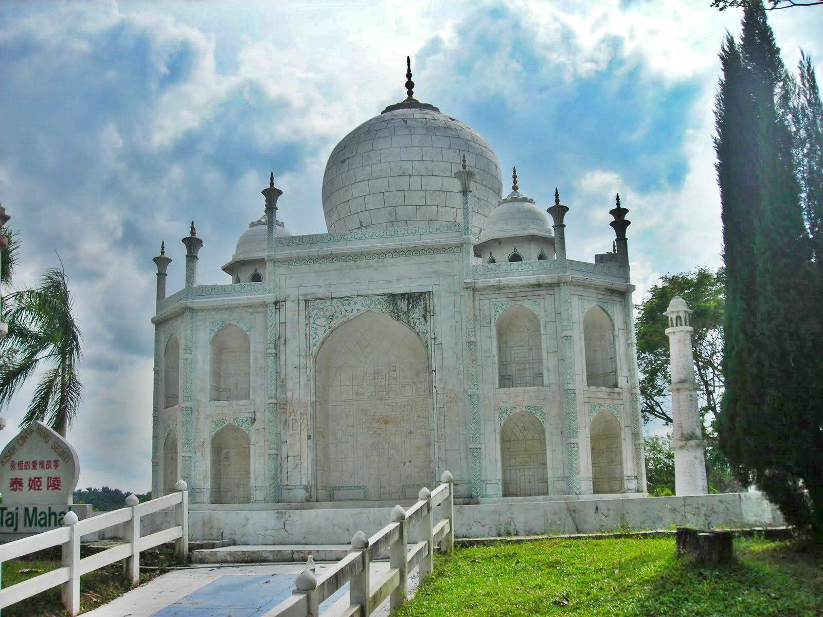 TAJMAHAL AT TROPICAL VILLAGE